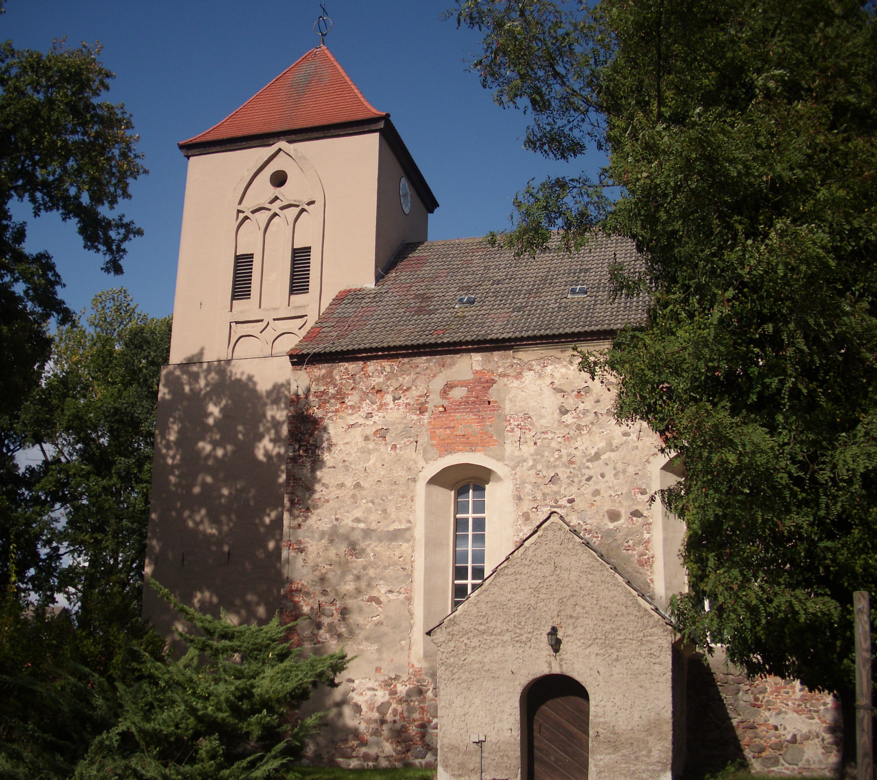 Church Hohenwalde in Frankfurt (Oder), Brandenburg, Germany